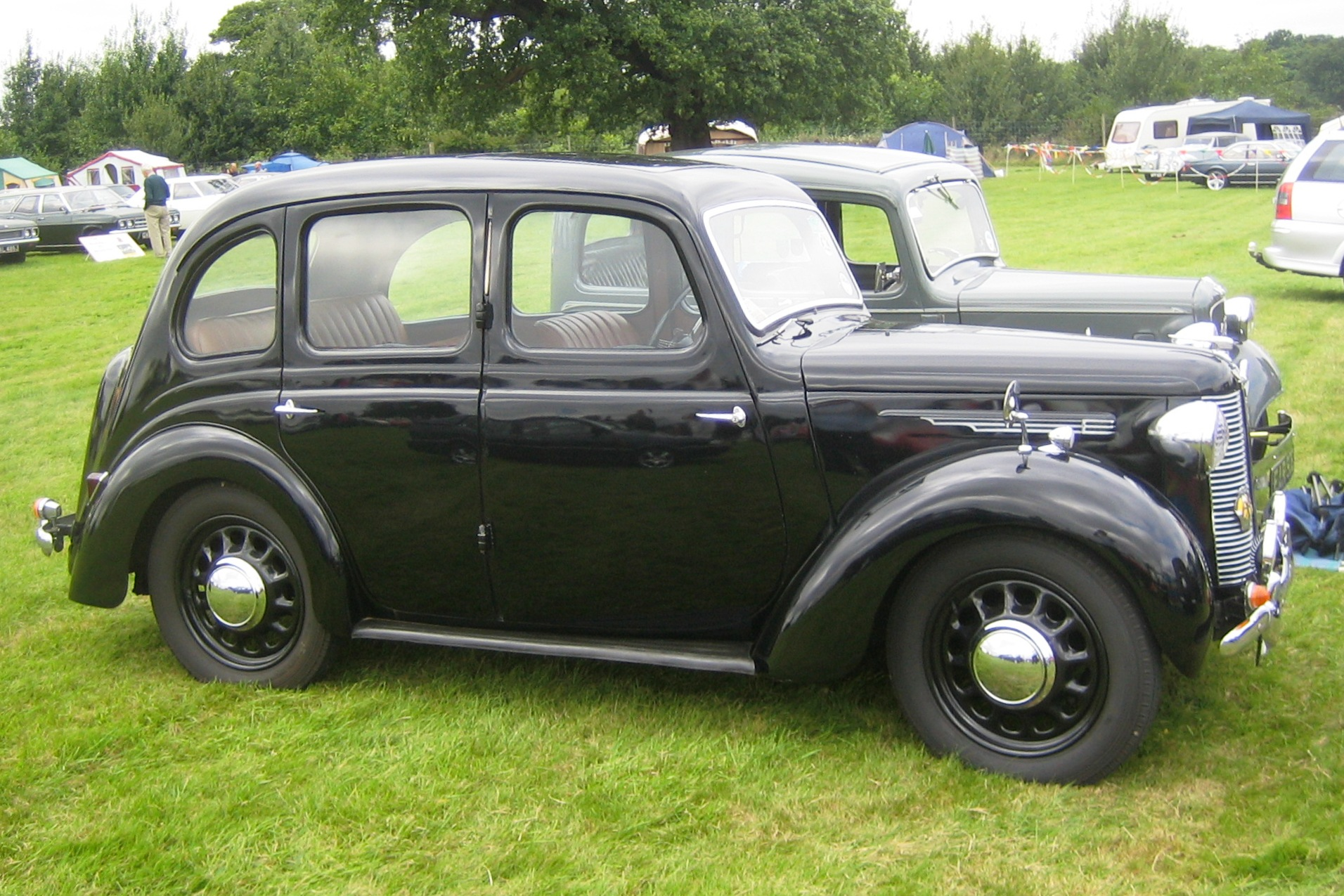 Austin 8 at Knebworth Classic Car Show